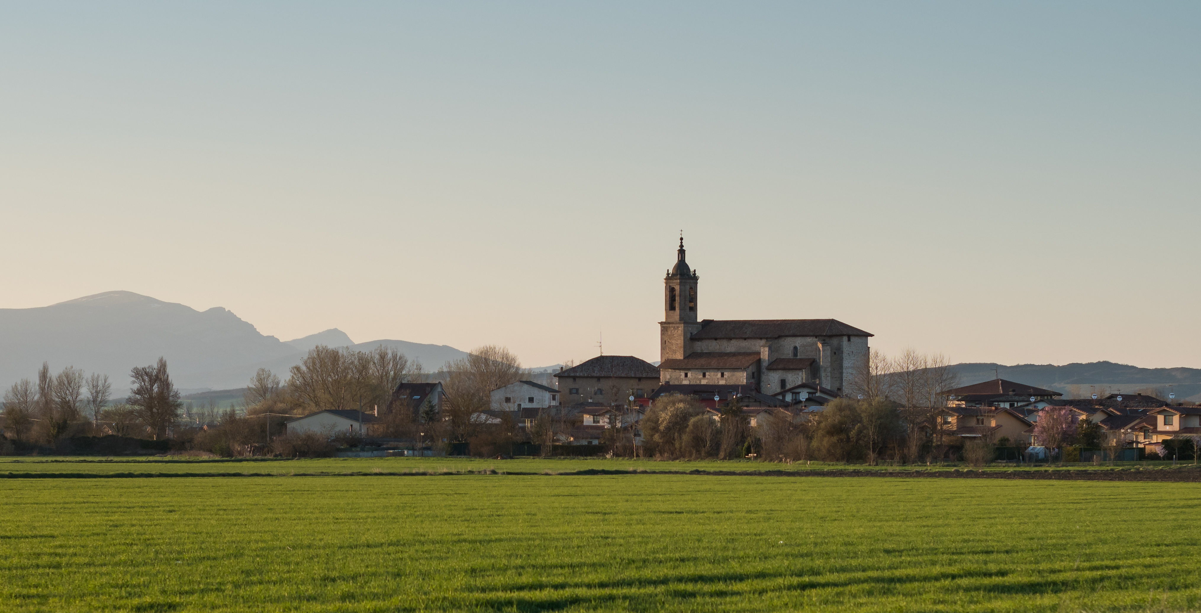 General view of Elburgo at sunset. Álava, Basque Country, Spain